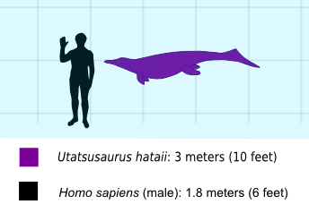 A comparison of the body sizes between an Utatsusaurus and an adult male human.